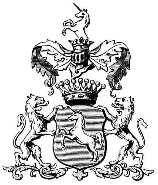 Coat of arms of the Counts of Badeni family by Boniecki.